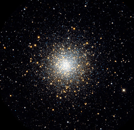 Globular Star Cluster M 10